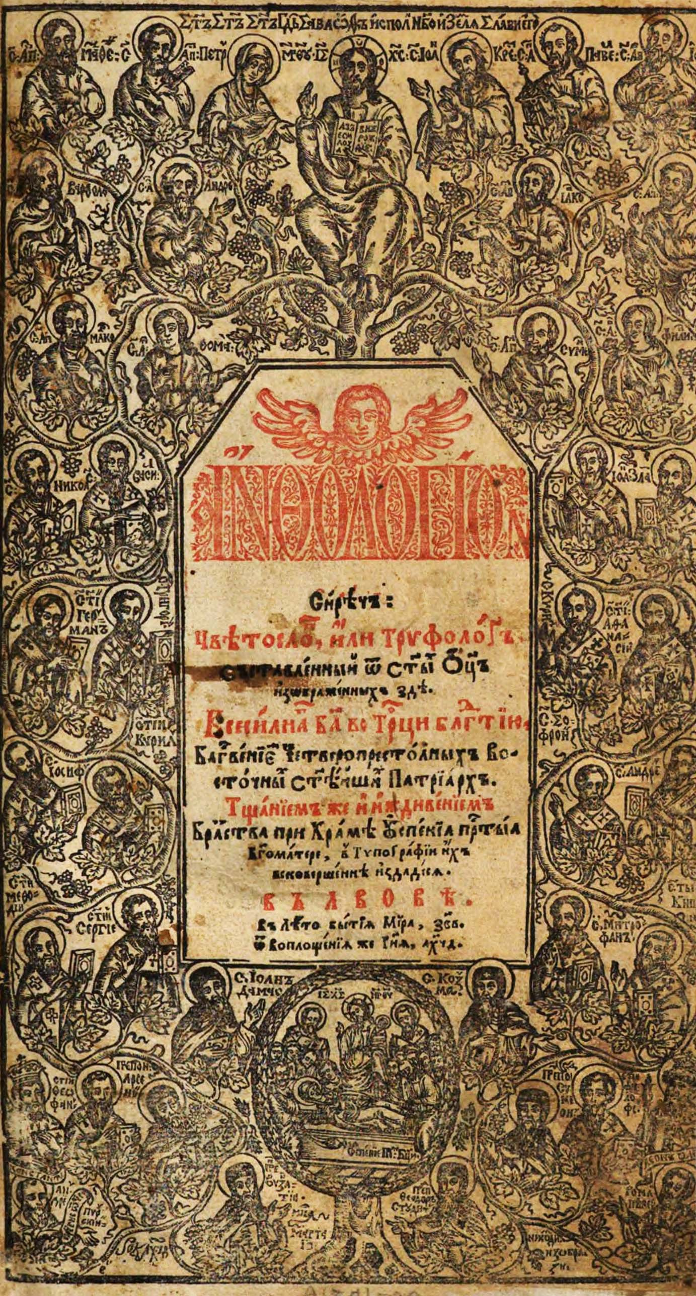 The Menaion, the collection of Orthodox liturgical texts printed in the printhouse in Lviv, 1694